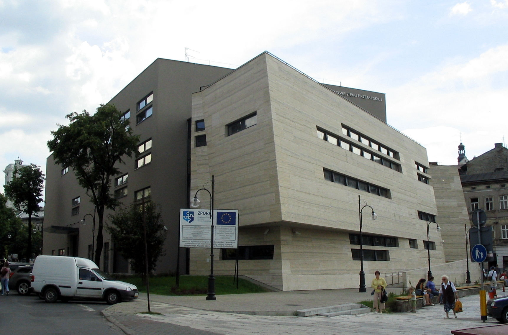 The National Museum Branch in Przemyśl